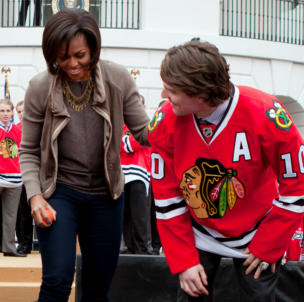 First Lady Michelle Obama participates in a "Let's Move!" and NHL partnership event with Chicago Blackhawks and Washington Capitals players on the South Lawn of the White House, March 11, 2011. (Official White House Photo by Samantha Appleton)